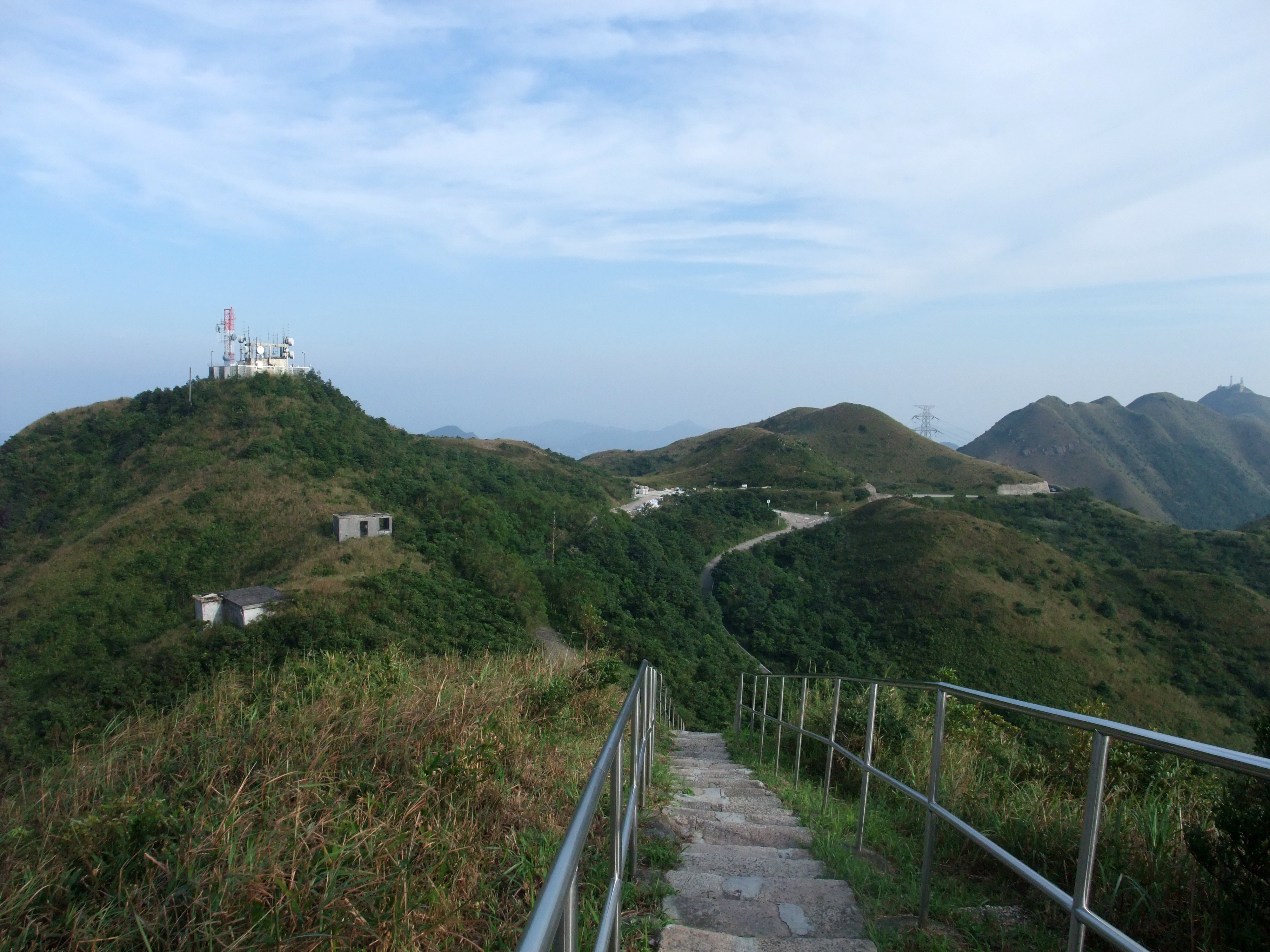 Photo of Tate's Cairn. Kowloon Peak is visible in the distance on the right.